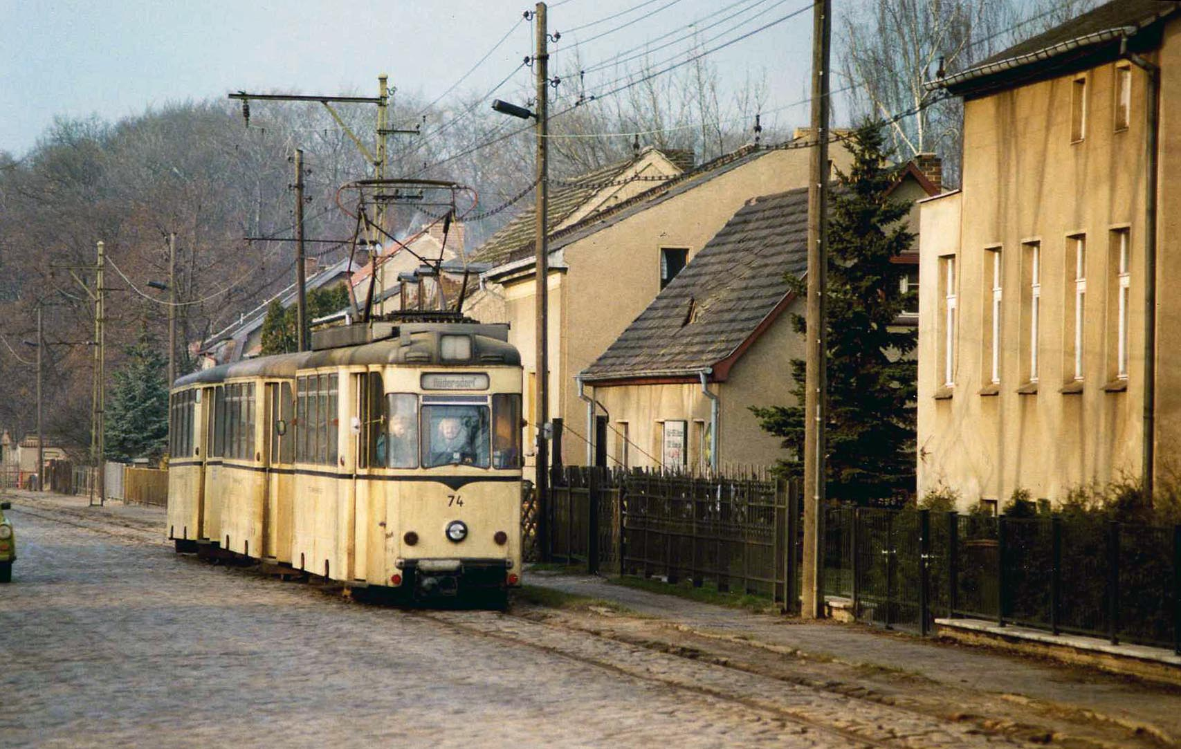 Single line kerb running over the cobbles on the isolated line east of Berlin. No 73 was also leading two REKO trailers on the same day. More pictures of the Schoeneiche system can be seen here